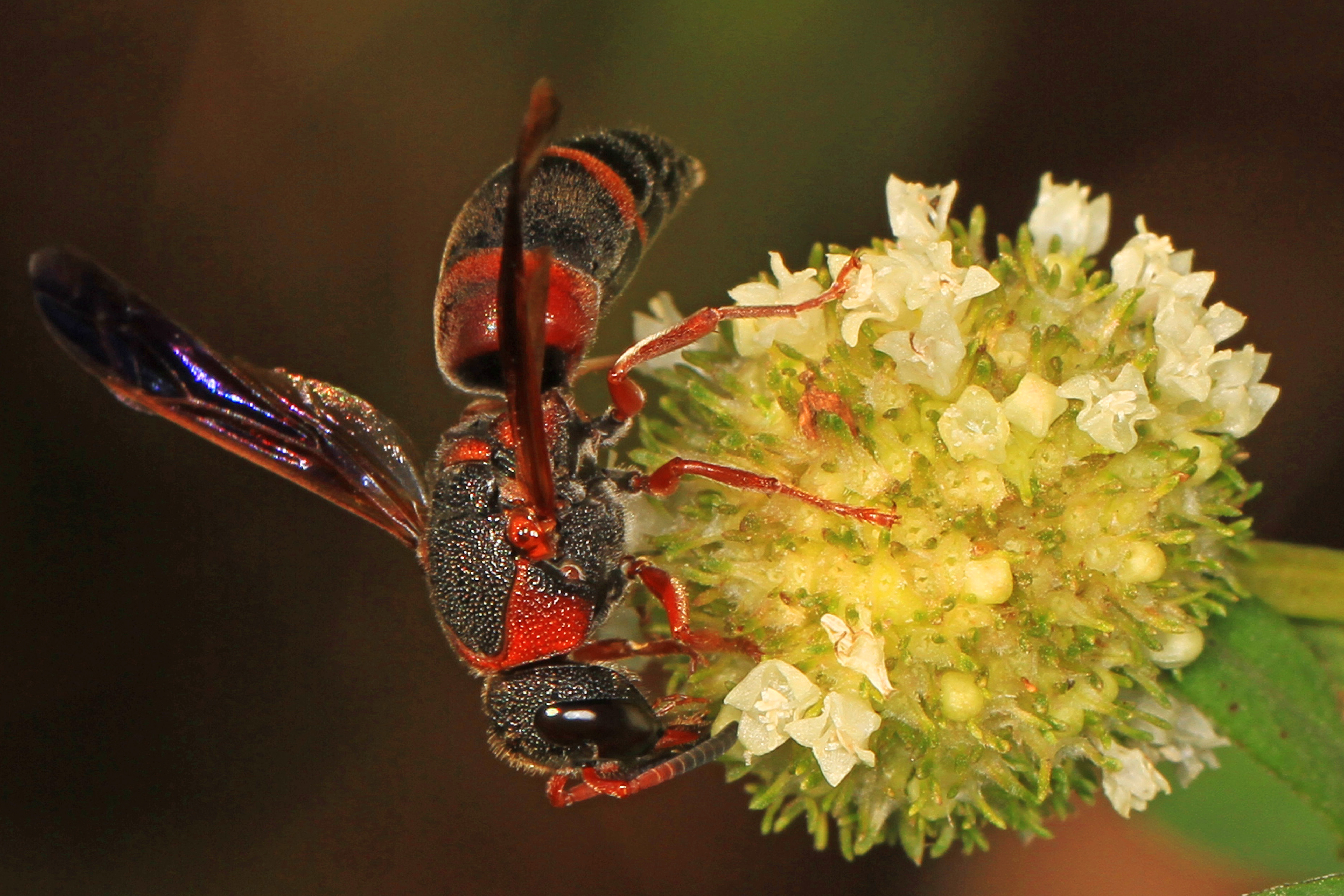 Red-marked Pachodynerus - Pachodynerus erynnis, Dinner Island Ranch Wildlife Management Area, Florida